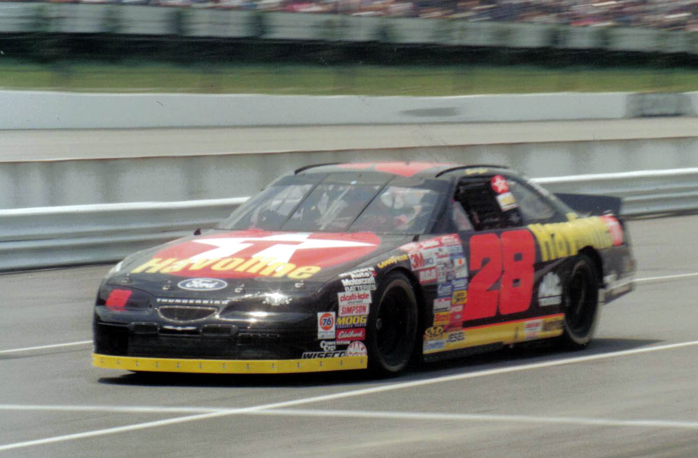 NASCAR driver Ernie Irvan at Pocono in 1997. He would win the final of his 15 wins the following week at Michigan.